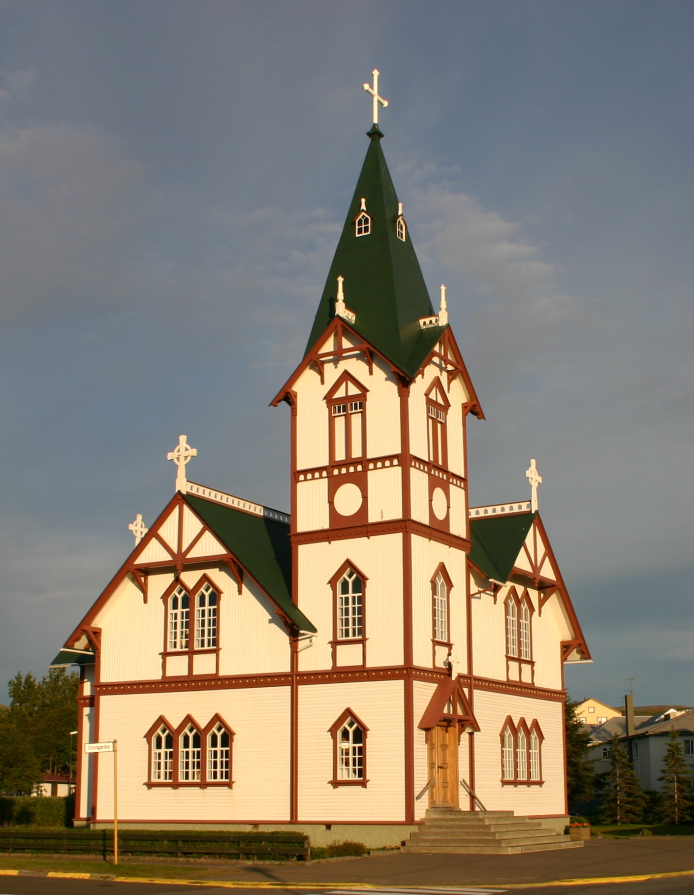 wooden church of Husavik, Iceland